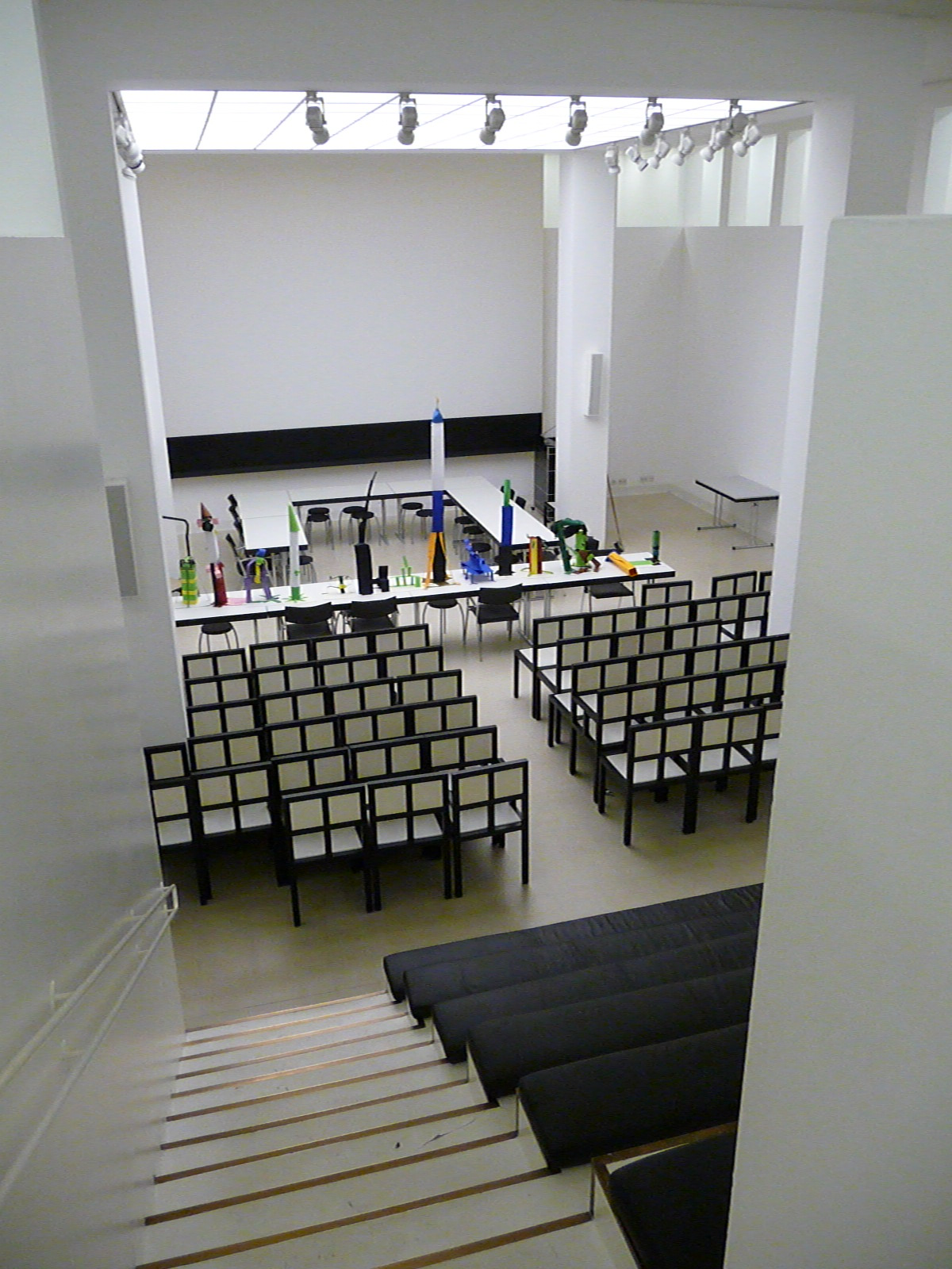 Deutsches Architekturmuseum in Frankfurt/Main. Interior: auditory. Architect: Oswald Mathias Ungers